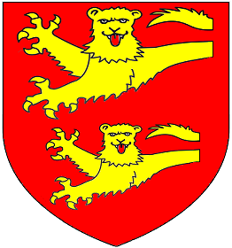 Arms of Hatch family of Hatch, South Molton, of Aller, South Molton, of Wooleigh, Beaford, all in Devonshire, England. Blazon: Gules, two demi-lions passant guardant in pale or. Sources: Vivian, Lt.Col. J.L., (Ed.) The Visitation of the County of Devon: Comprising the Heralds' Visitations of 1531, 1564 & 1620, Exeter, 1895, p.455; Pole, Sir William (d.1635), Collections Towards a Description of the County of Devon, Sir John-William de la Pole (ed.), London, 1791, p.485